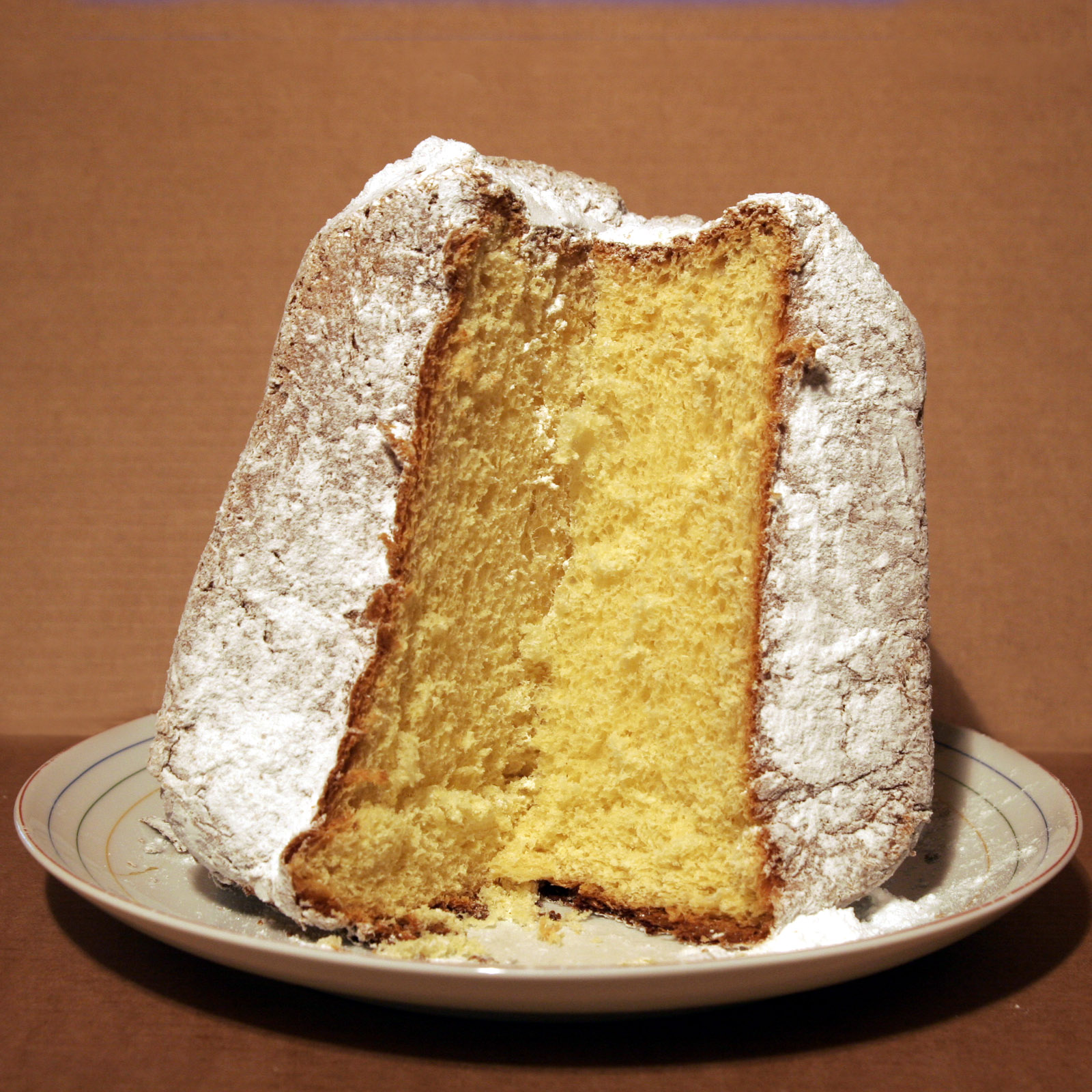 An italien Pandoro cake. Side view with cut